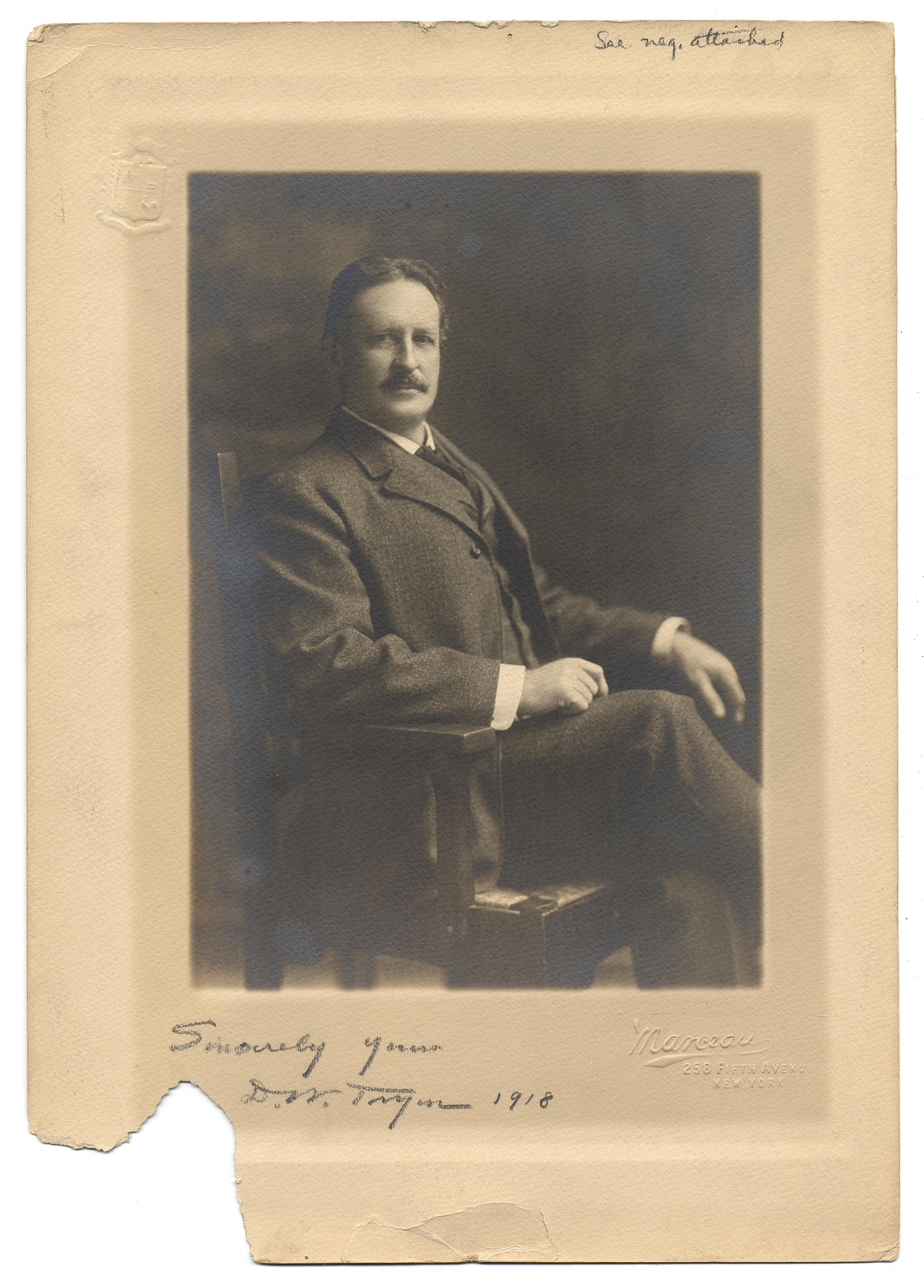 Description: Portrait of Tryon seated in a chair. Inscription lower left: "Sincerely yours D. W. Tryon, 1918". Tryon, Dwight William, 1849-1925 Creator/Photographer: Marceau Marc Medium: Black and white photographic print Dimensions: 29 cm x 19 cm Date: 1918 Persistent URL: Repository: Archives of American Art Collection: Macbeth Gallery Records, c. 1890-1964 Accession number: aaa_macbgall_4848